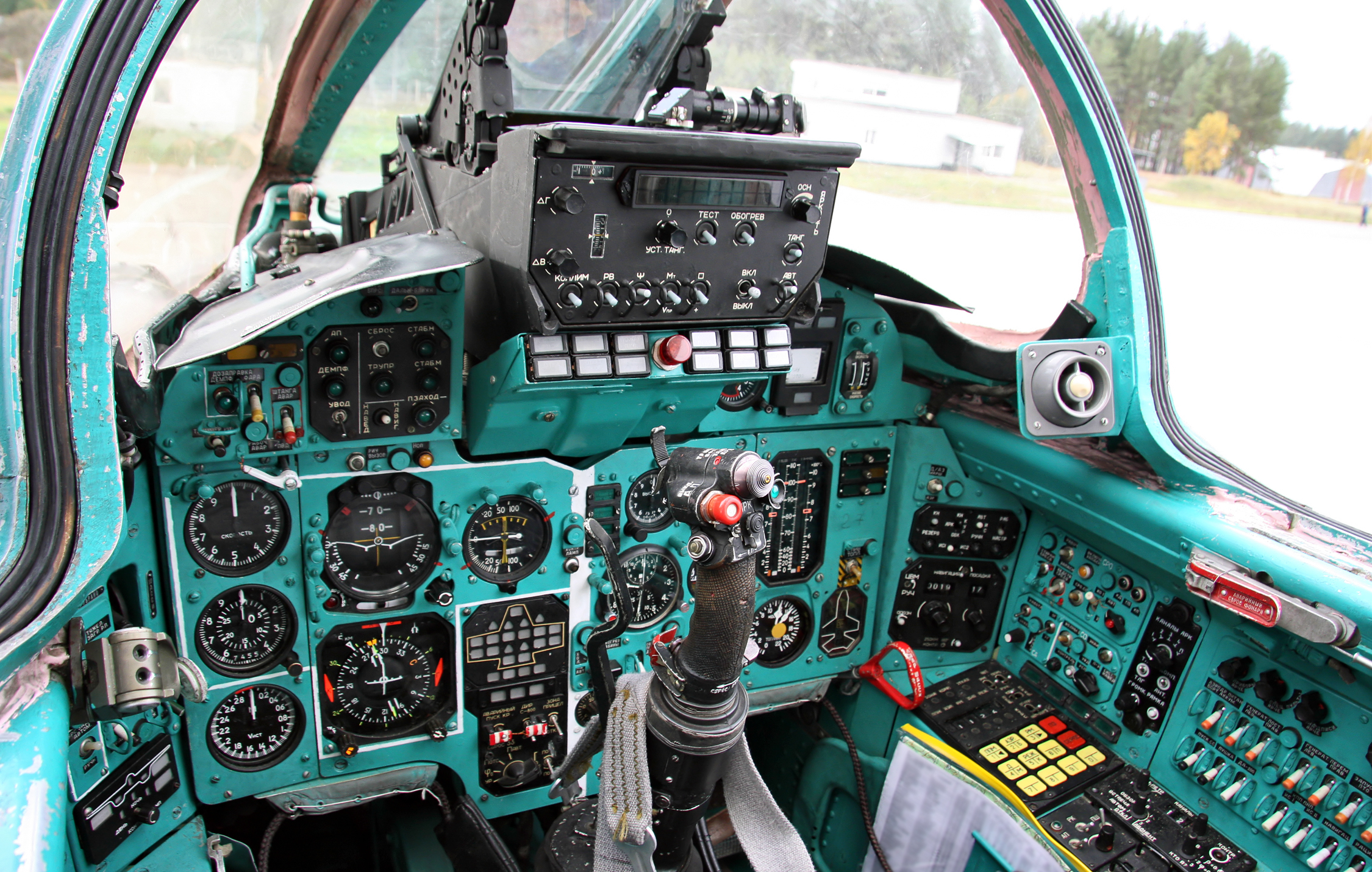 First pilot cockpit of Mikoyan-Gurevich MiG-31 interceptor